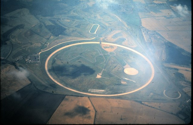 MIllbrook Vehicle Proving Ground (1978) Photographed from the air. This purpose-built General Motors multi-test facility has been in use since 1968. See General Motors Proving Grounds.